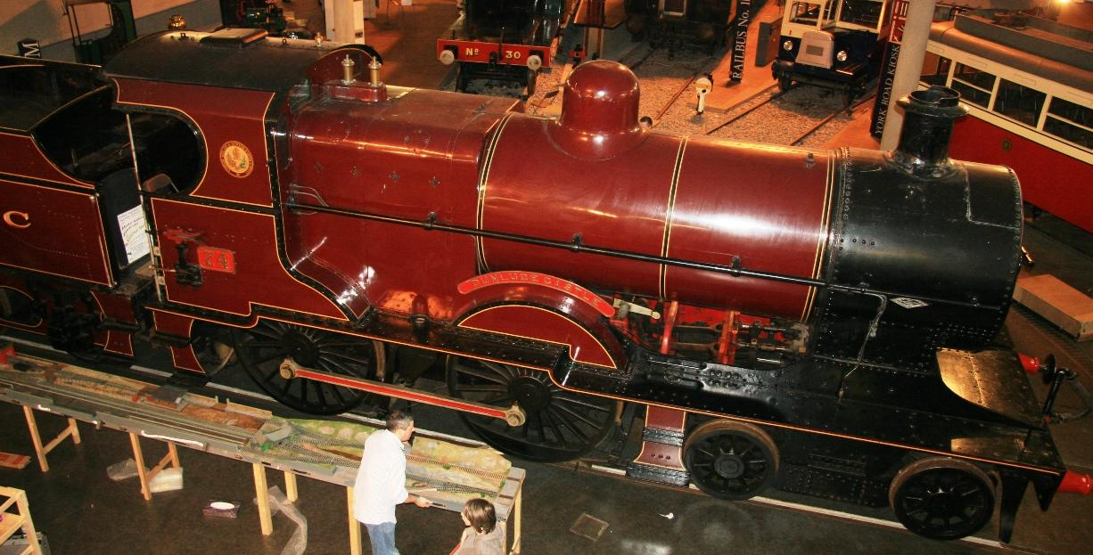 NCC Class U2 4-4-0 steam locomotive 74 Dunluce Castle in the Ulster Transport Museum, Cultra, Co. Down, Northern Ireland